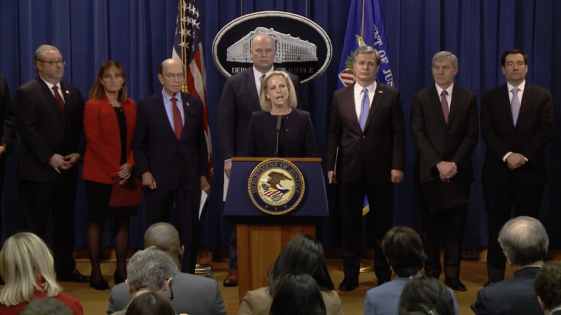 Acting U.S. Attorney General Matthew Whitaker, Homeland Security Secretary Kirstjen Nielsen, Commerce Secretary Wilbur Ross, FBI Director Christopher Wray, U.S. Attorney Richard P. Donoghue for the Eastern District of New York, First Assistant U.S. Attorney Annette Hayes for the Western District of Washington, Assistant Attorney General Brian A. Benczkowski of the Justice Department's Criminal Division and Assistant Attorney General John C. Demers of the National Security Division announcing the 23 charges (including Banking and Financial Fraud, Money Laundering, Wire Fraud, Conspiracy to Defraud the United States, Theft of Trade Secret and Technology, Offered Bonus to Workers who Stole Confidential Information from Companies Around the World, Obstruction of Justice and Sanctions Violations, etc.) against Huawei, its CFO Wanzhou Meng, Huawei Device USA Inc. and Huawei’s Iranian Subsidiary Skycom